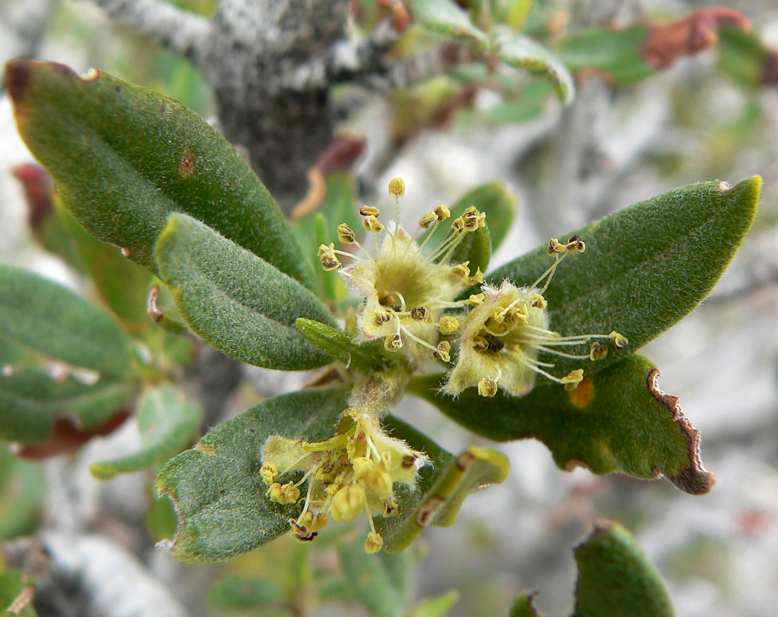 Cercocarpus ledifolius var. intermontanus by the Macks Canyon Road where it makes a hairpin turn around a ridgetop, Lee Canyon, Spring Mountains, southern Nevada (elev. about 2400 m)